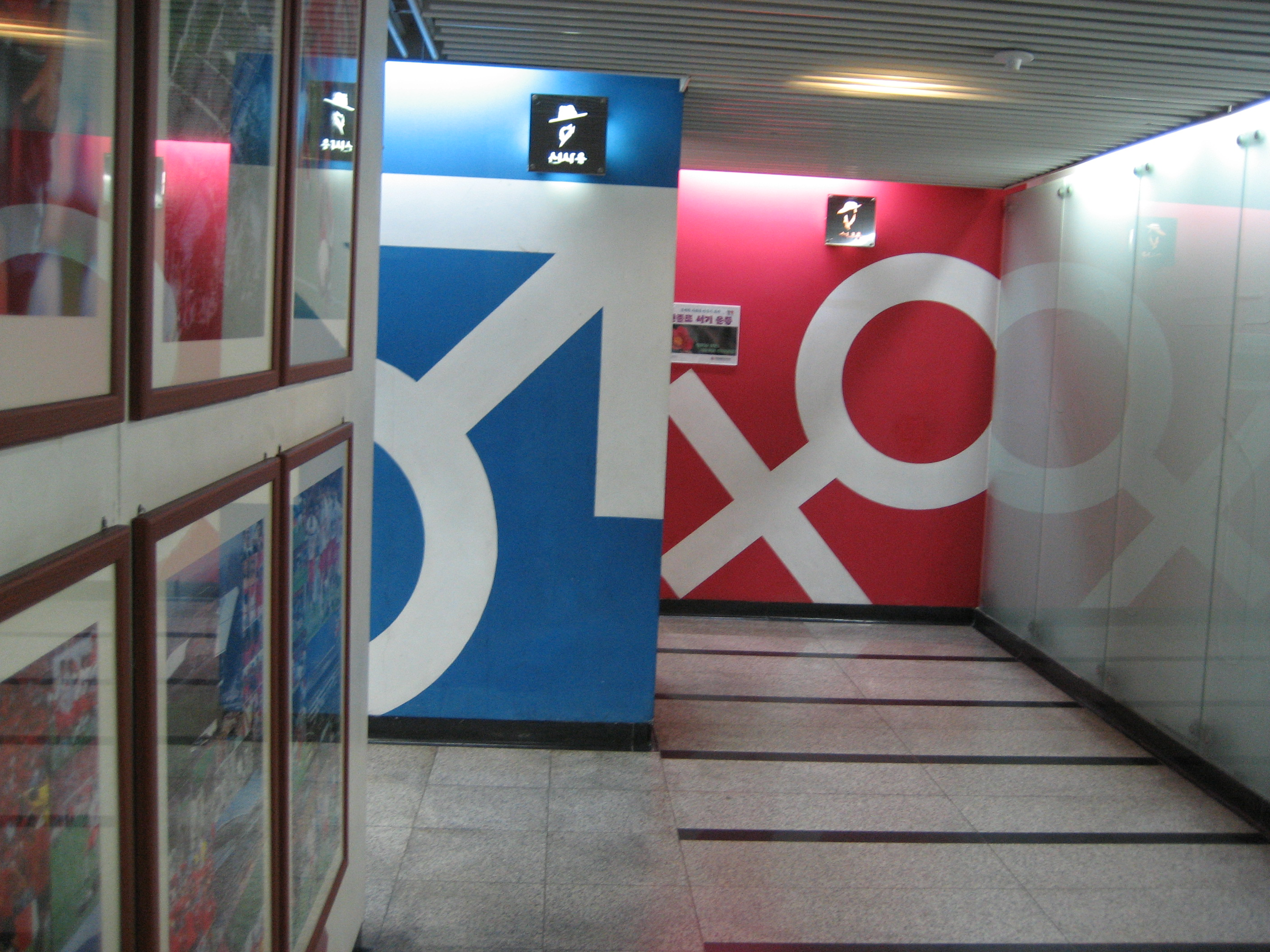 Public toilets in Seoul World Cup Stadium